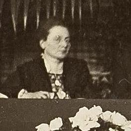 WILPF/2011/18 left to right:1. Lucy Thoumaian - Armenia, 2. Leopoldine Kulka, 3. Laura Hughes - Canada, 4. Rosika Schwimmer - Hungary, 5. Anika Augspurg - Germany, 6. Jane Addams - USA, 7. Eugenie Hanner, 8. Aletta Jacobs - Netherlands, 9. Chrystal Macmillan - UK, 10. Rosa Genoni - Italy, 11. Anna Kleman - Sweden, 12. Thora Daugaard - Denmark, 13. Louise Keilhau - Norway